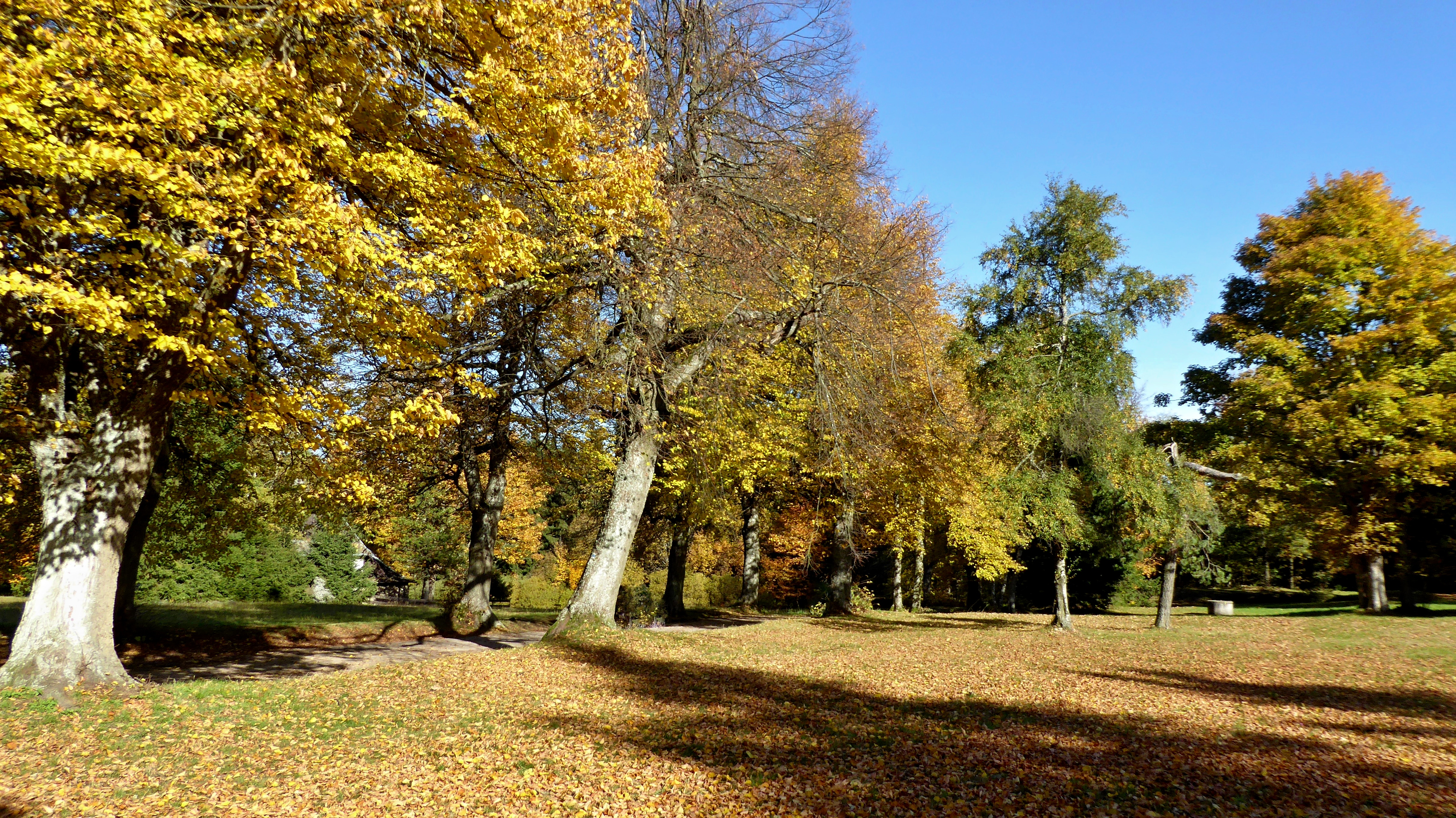 The tree alley in settlement locality "Karlštejn", in the top part of the hill under the hunting chateau, objects marked with the same name "Karlštejn" on the cadastral territory of Svratouch in the Pardubice Region, Czech Republic. Location in the Protected Landscape Area "Žďárské" hills. The hill with peak in altitude 784 m according to the contour map is the highest in the geomorphological district of "Borovský" forest, a part of "Žďárské" hills in the north-western region of "Hornosvratecká" highlands (geomorphological whole). Photo-location: Czechia, Pardubice Region, the village of "Svratouch", meadows on the peak "Karlštejn", azimuth 0°.